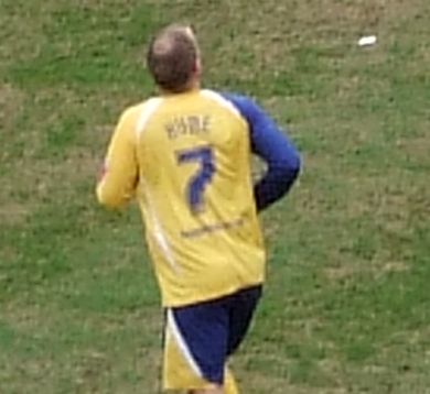 Iain Hume. Image cropped from original at Flickr.